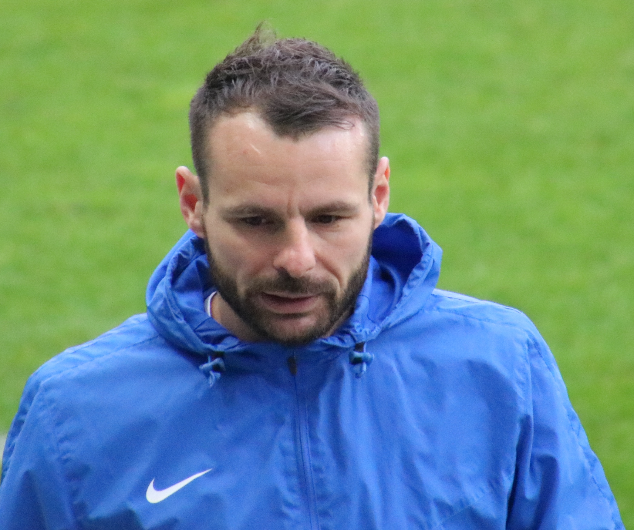 League match Austrian Bundesliga 26th round 2015/16